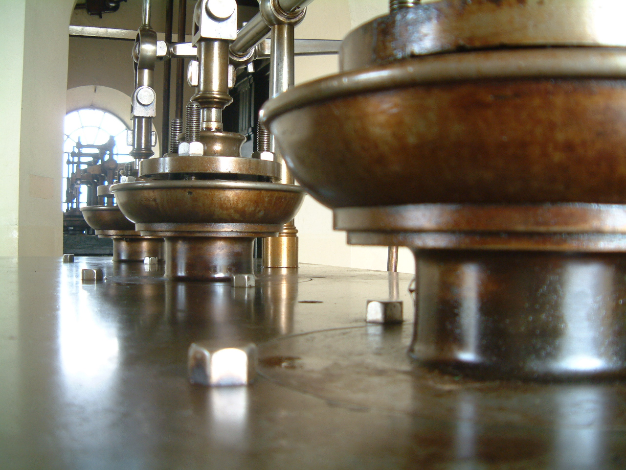 These are the steam inlet and outlet valves of the worlds larges Steam engine which is still running and can been seen at Kew Bridge Steam Museum. West London